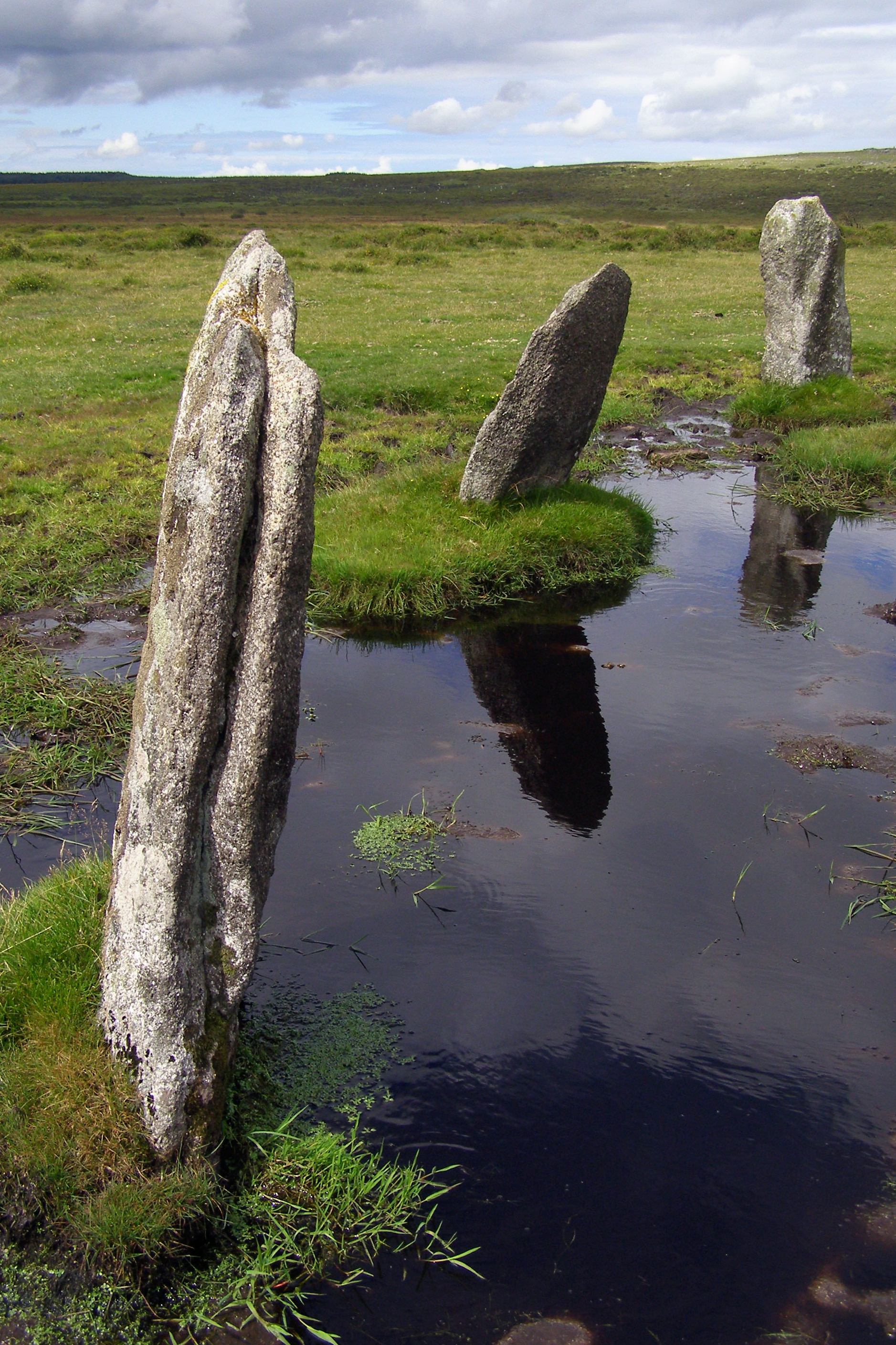 Three of the Ninestones of Altarnun, Bodmin Moor, Cornwall, U.K.